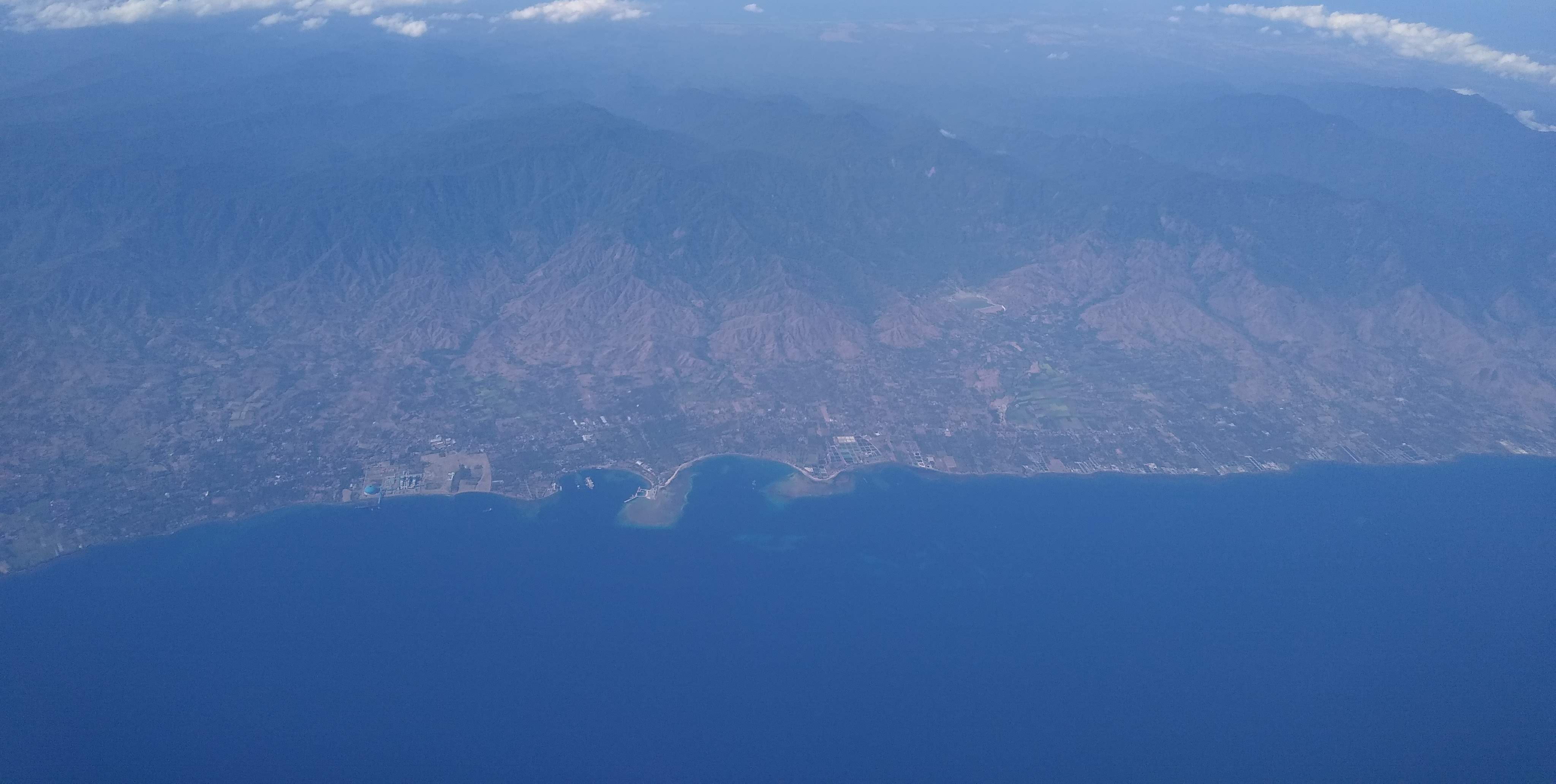 Coast of Buleleng Regency, Bali, seen from the air